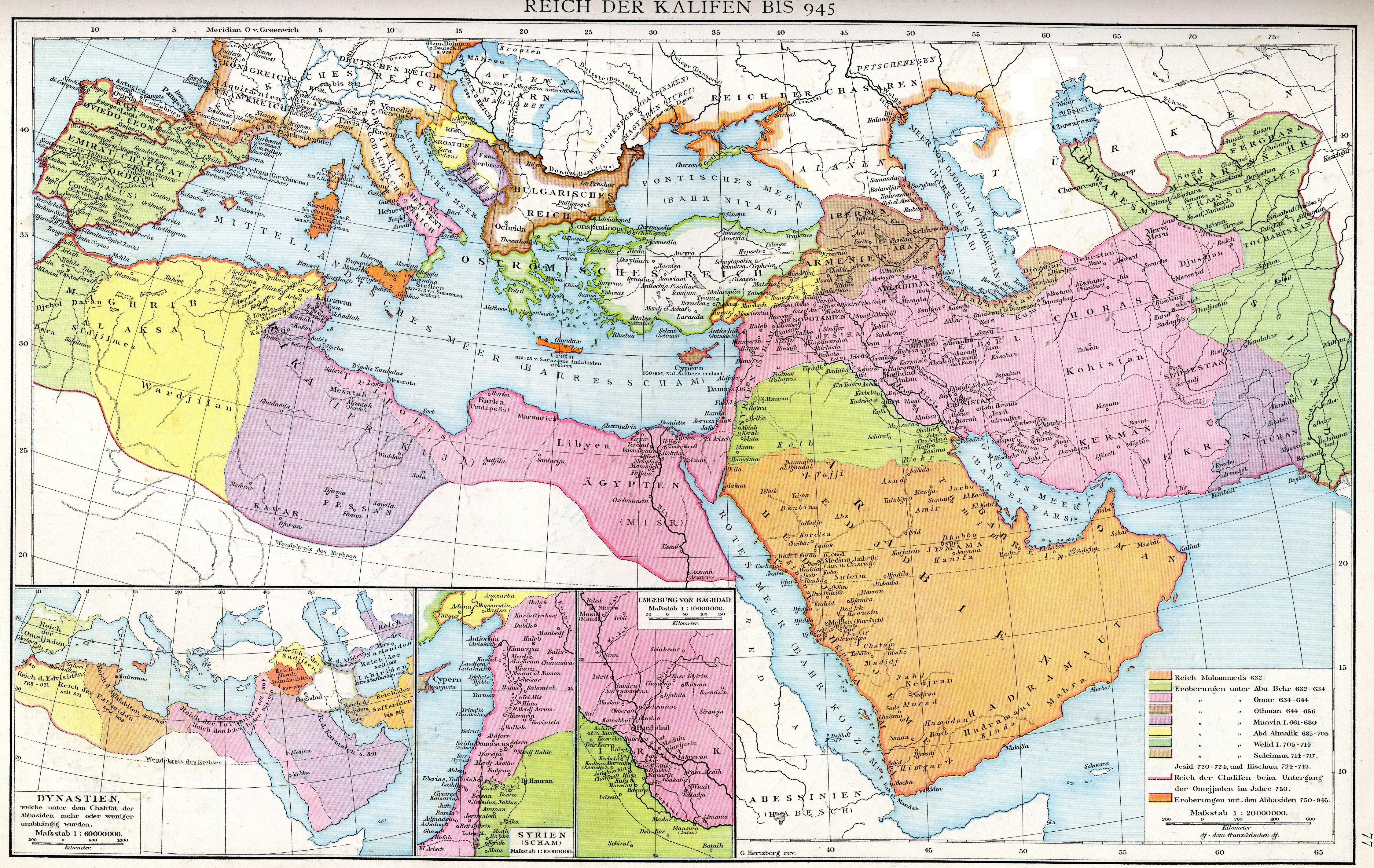 The empire of the Caliphs to 945. Map of the Historical Atlas of Gustav Droysen, 1886